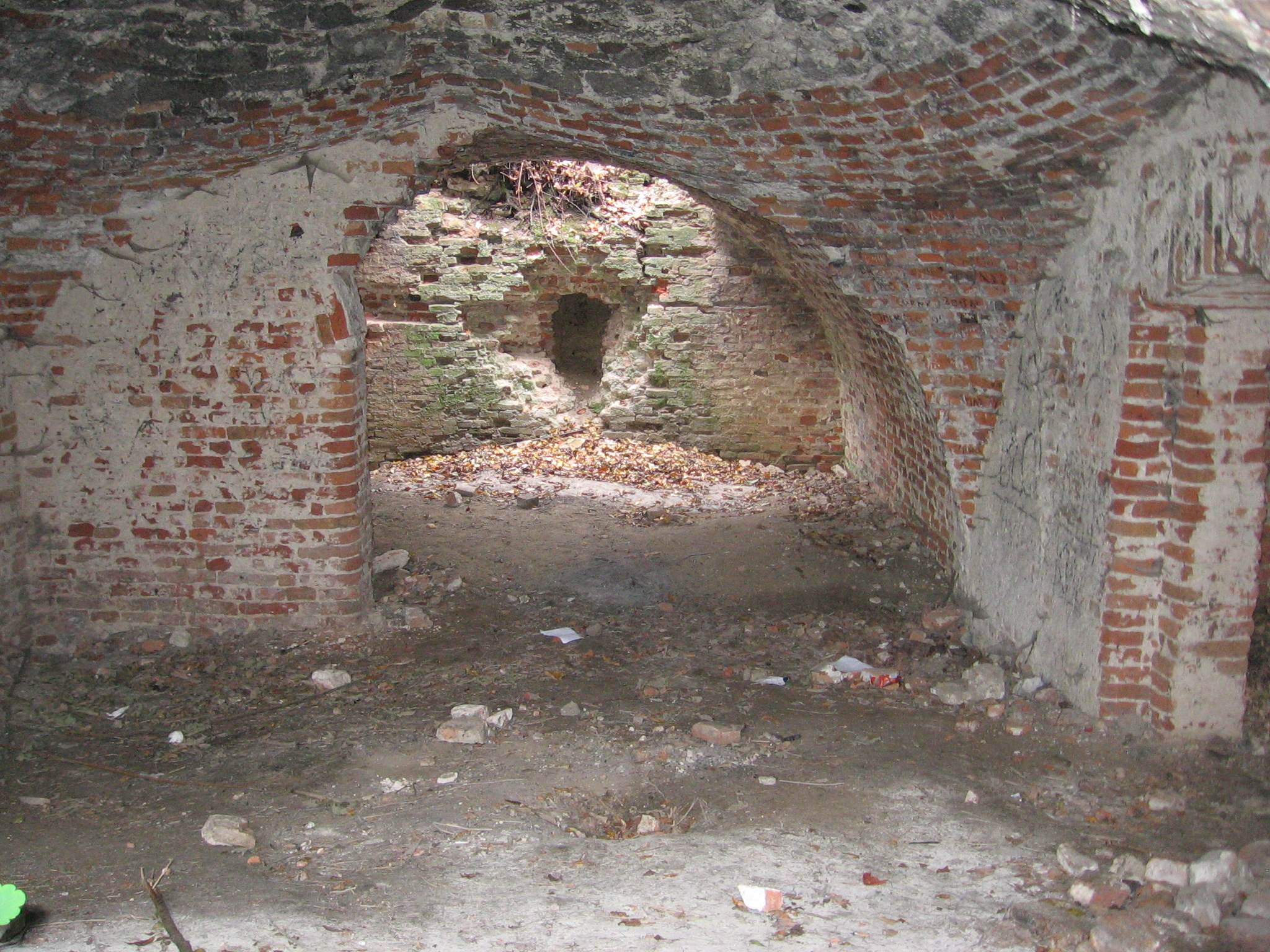 Inside the ruins of so called Swedish Fortification in Olesno commune in Poland.